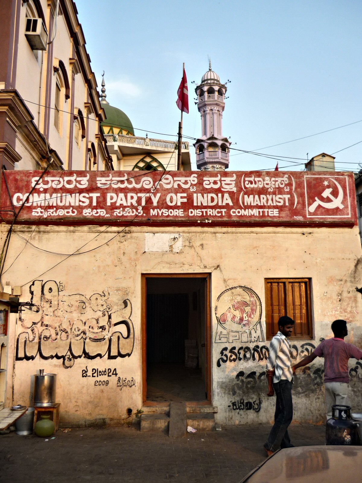 District headquarters.